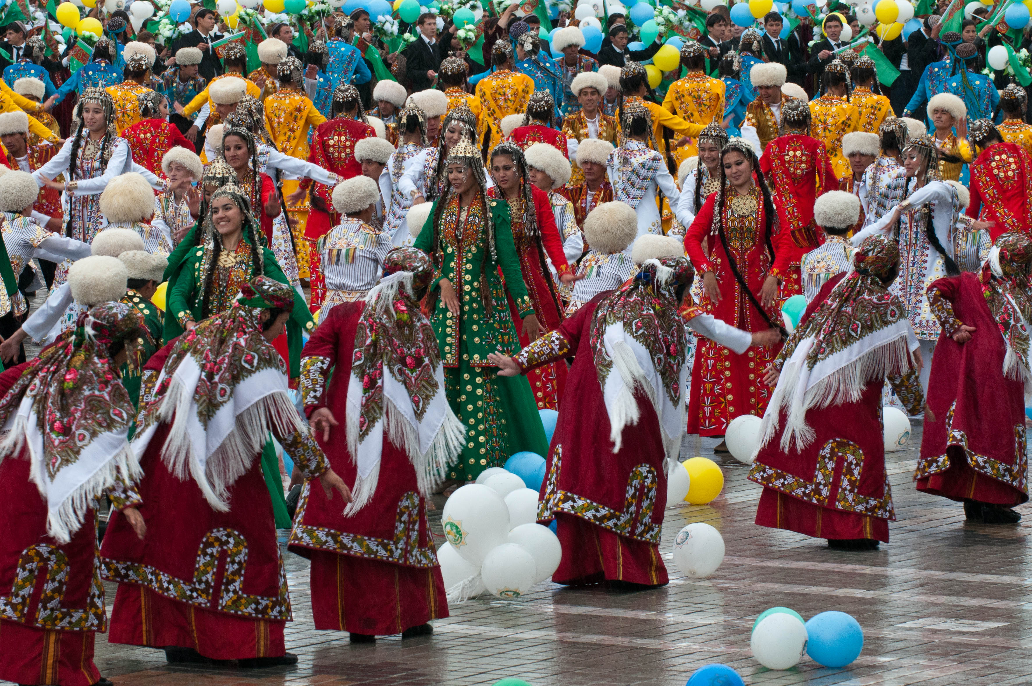 Celebrating the 20th year of independence in Turkmenistan